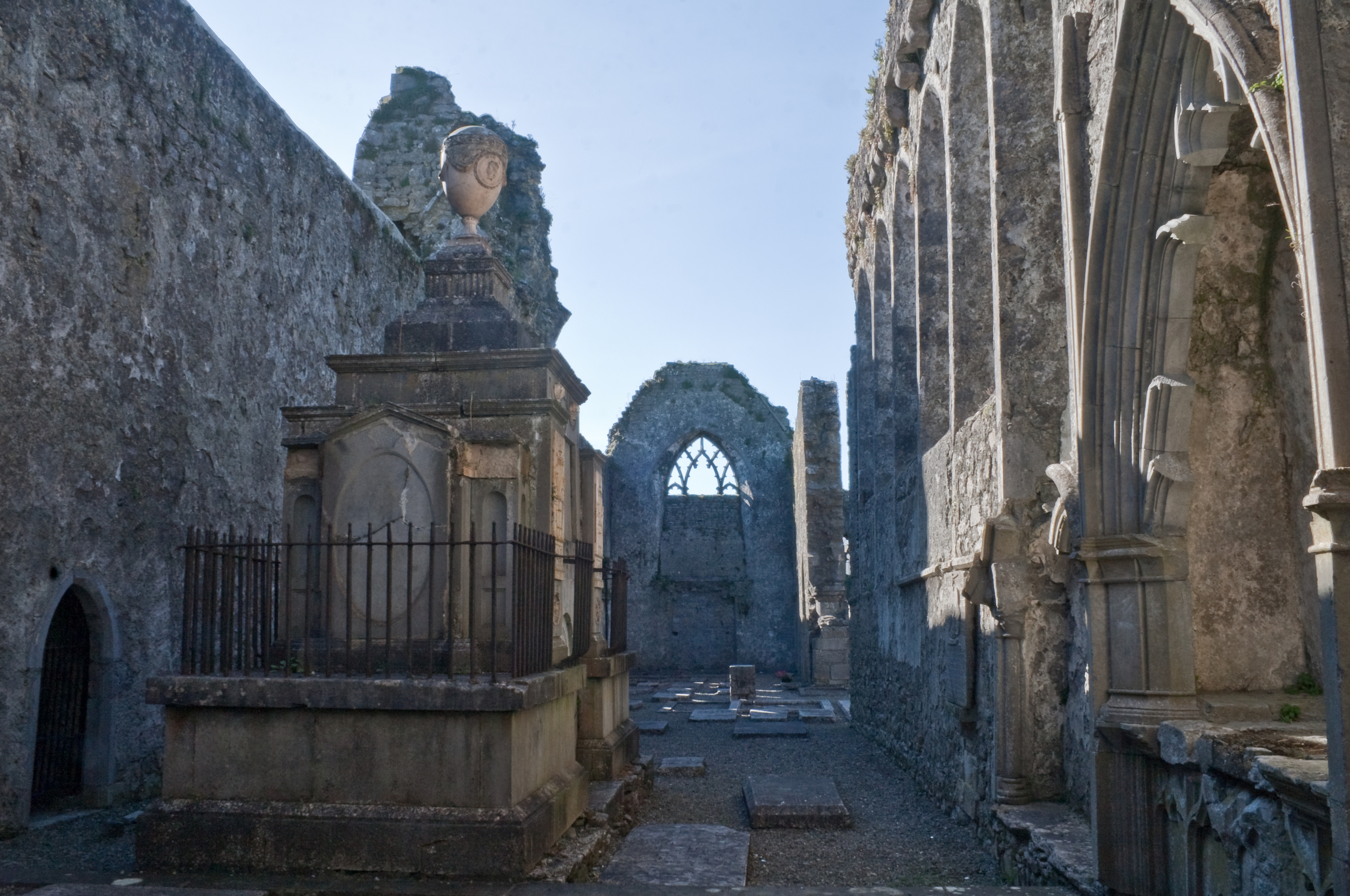 Athenry, County Galway, Ireland View from the choir of Athenry Priory into the nave, looking west.